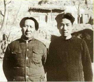 1946 Mao and son Mao Unyin in Yan'an. 1946年，毛泽东与毛岸英在延安王家坪